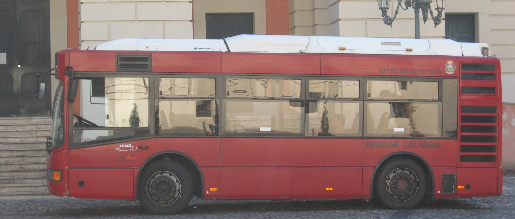 BredaMenarinibus Monocar 240N CNG Exobus midibus in Cosenza, Calabria, Italy. Azienda per la Mobilità nell'Area COsentina (AMACO) operator.